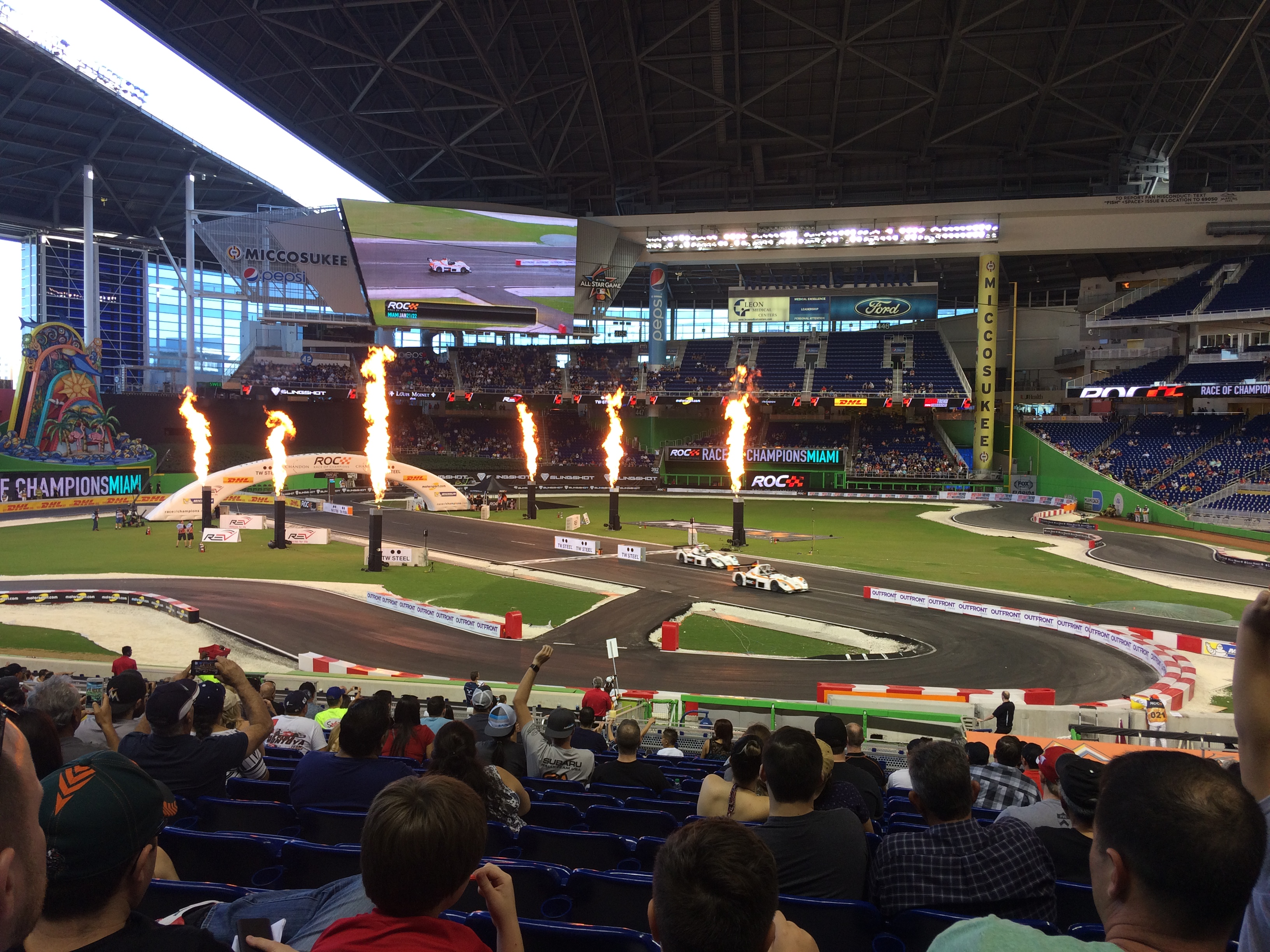 2017 Race of Champions - Saturday, January 21